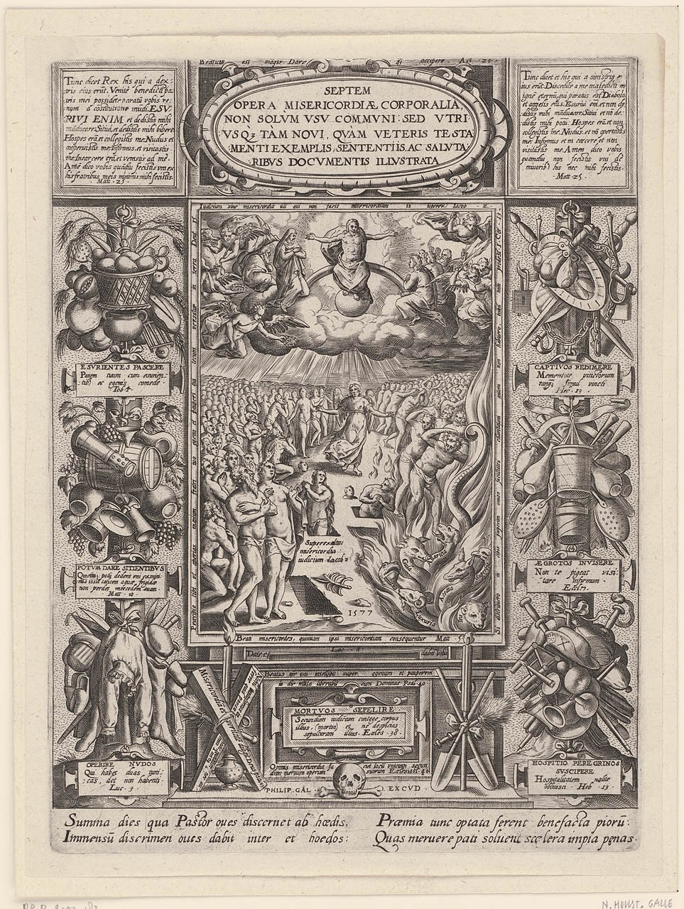 Frontispiece of the series The seven works of mercy, which are those that tend to bodily needs. The Parable of the Sheep and the Goats (Matthew 25:31-46) enumerates such acts -- though not this precise list -- as the reason for the salvation of the saved, and the omission of them as the reason for damnation. Feed the hungry Give drink to the thirsty Clothe the naked Shelter the homeless Visit the imprisoned Visit the sick Bury the dead